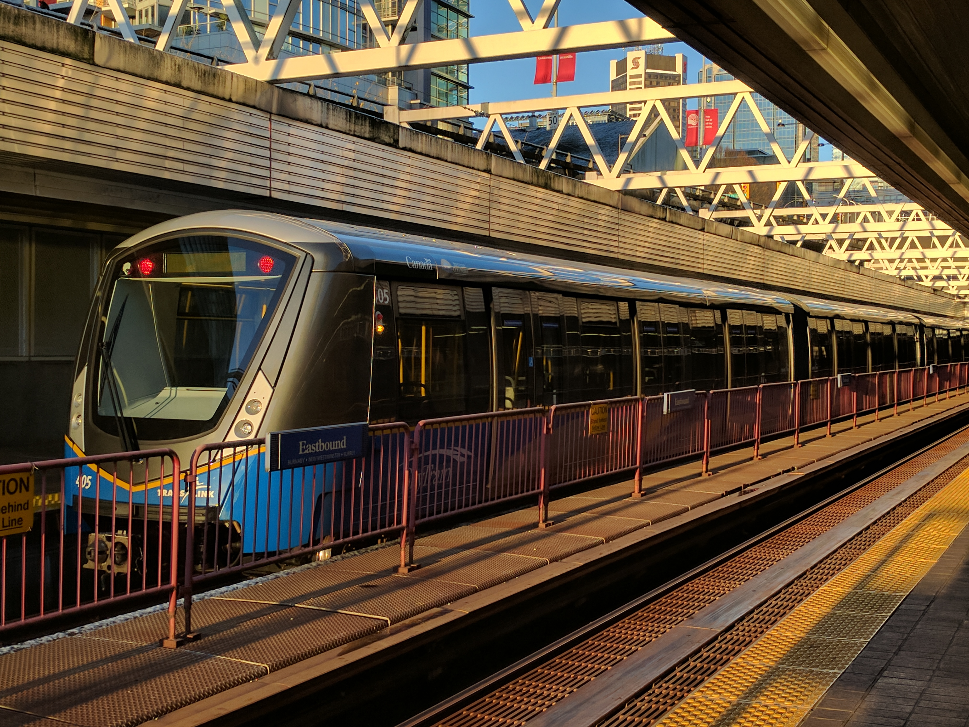 Bombardier ART Mark III used by Skytrain, parked on the reserve track of Stadium–Chinatown station